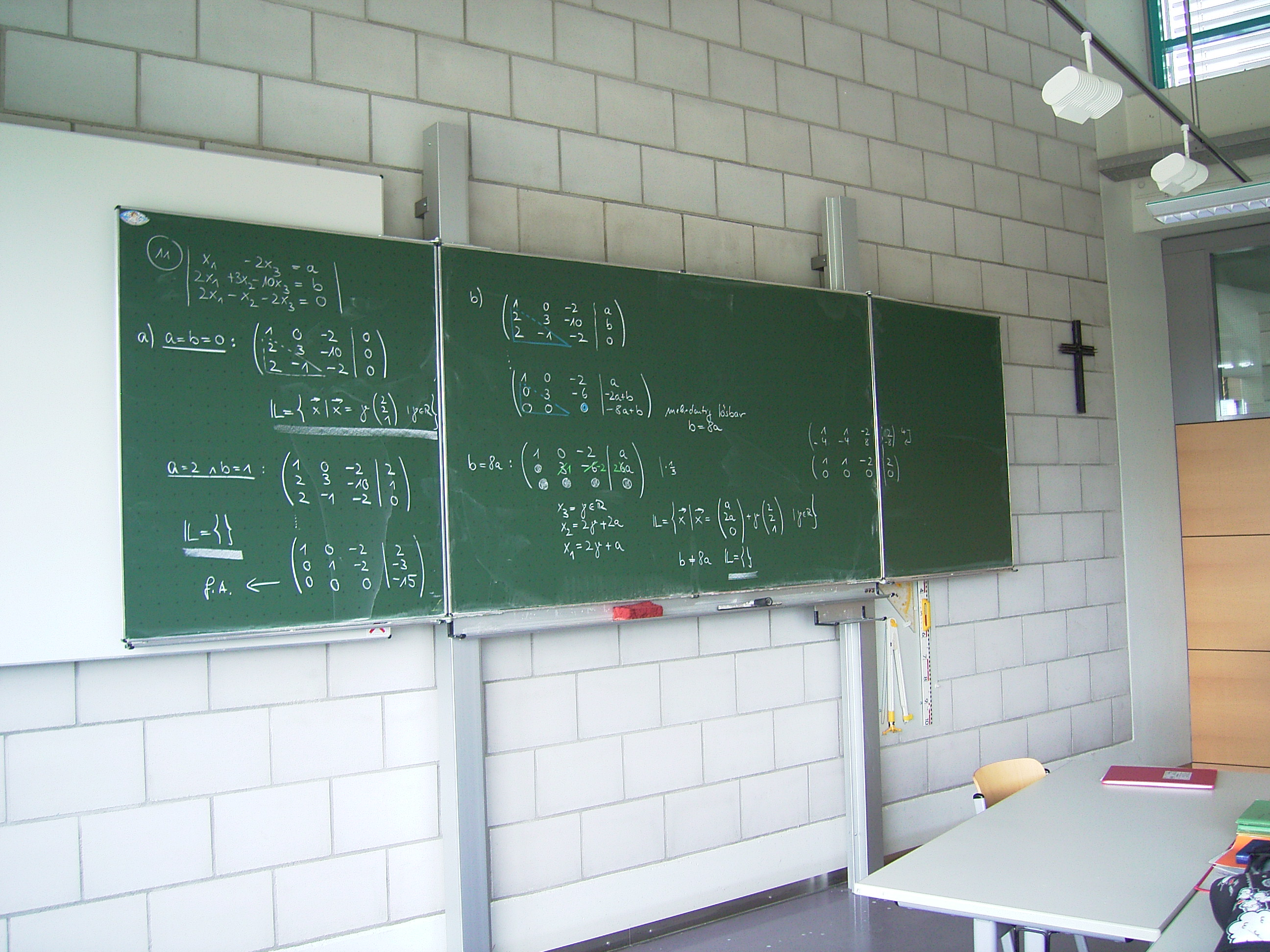 A German School Board